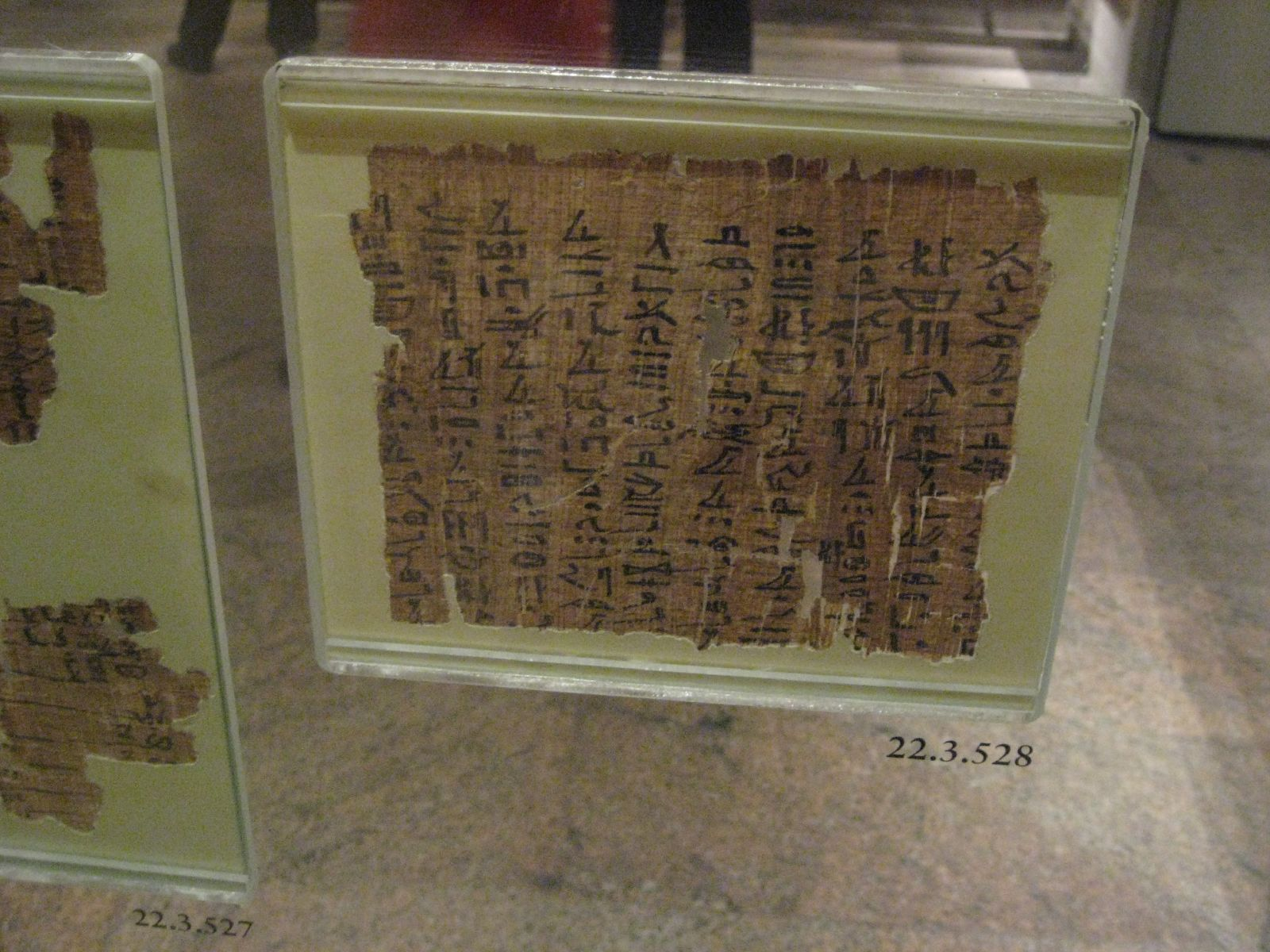 A picture of the Heqanakht letters from the early Middle Kingdom. The Heqanakht papyri, part of the permanent collection of the Metropolitan Museum of Art, are currently on display in its Egyptian galleries. They consist of 5 complete letters, 4 complete accounts, and four or five fragments. The papyri were discovered on the Museum's Theban expedition of 1921-22 in the tomb of one Meseh. Each of the complete documents was found folded; two were tied with string and sealed with a lump of clay impressed with the same stamp. The papyri are dated to the early Middle Kingdom -- i.e. to about 2000 B.C. (source: Metropolitan Museum website)